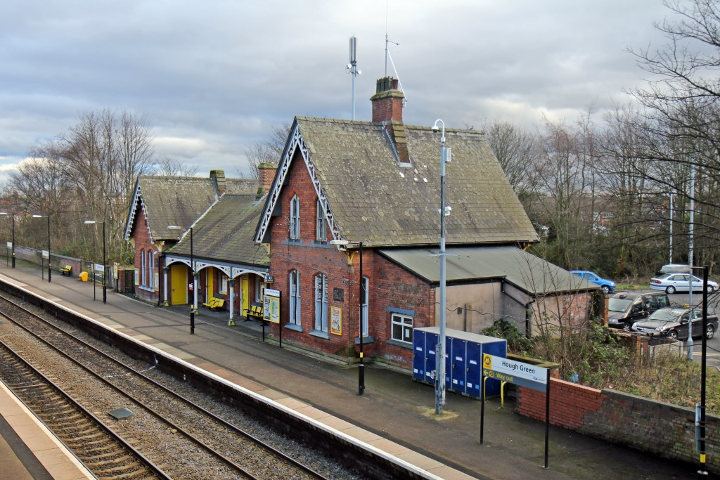 Booking office, Hough Green railway station